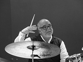 Peter Erskine